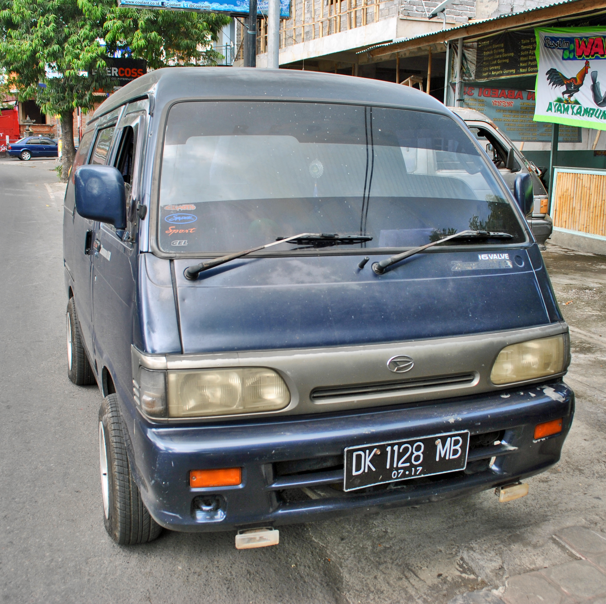 Daihatsu Zebra Astrea minivan photographed in Amlapura, Karangasem Regency, Bali, Indonesia.